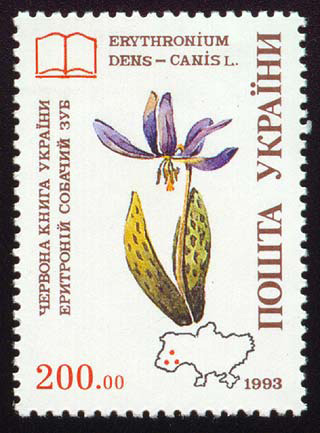 Stamp of Ukraine